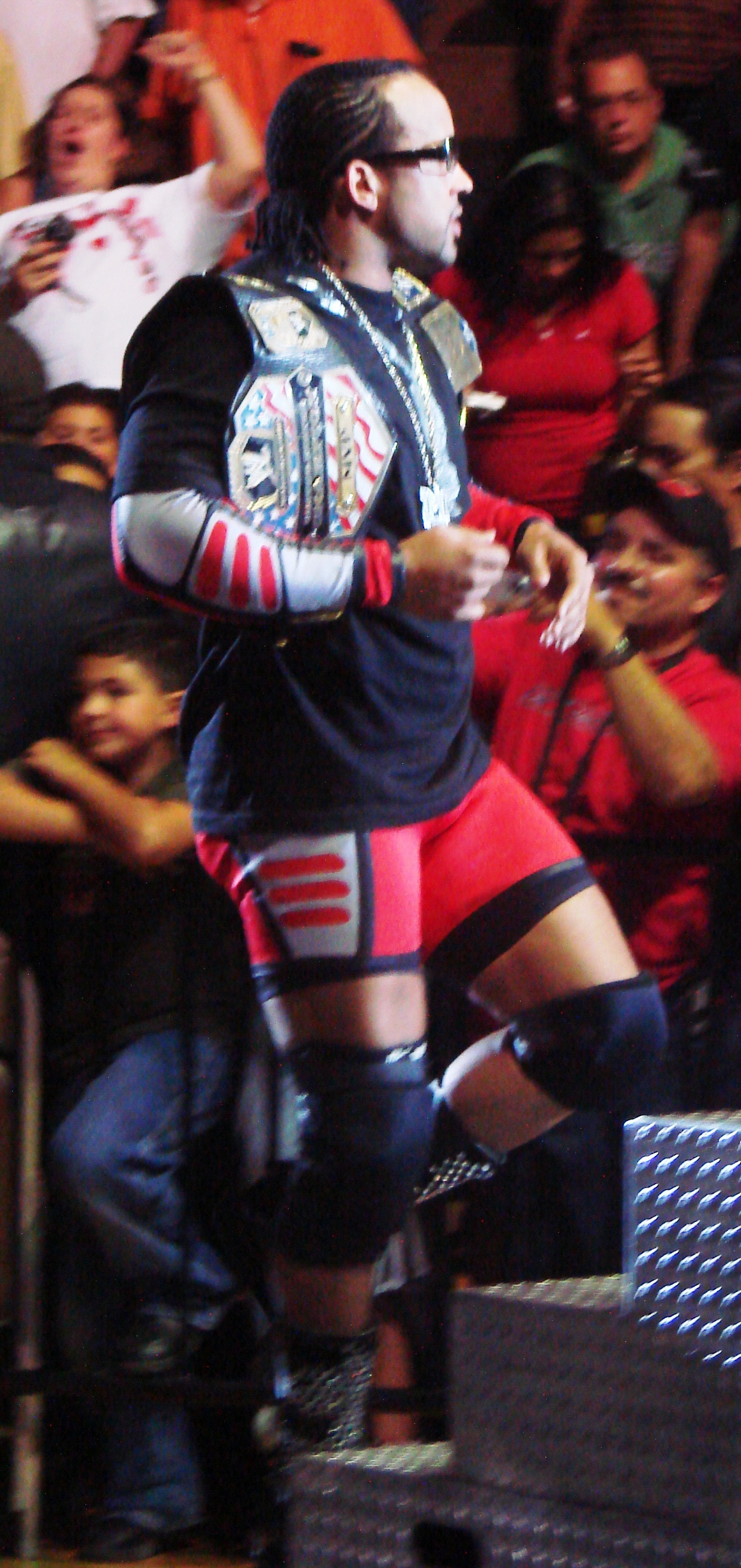 MVP at a Smackdown! live event. Hammond Civic Center, Hammond, Indiana, September 30en:2007. Taken by me.